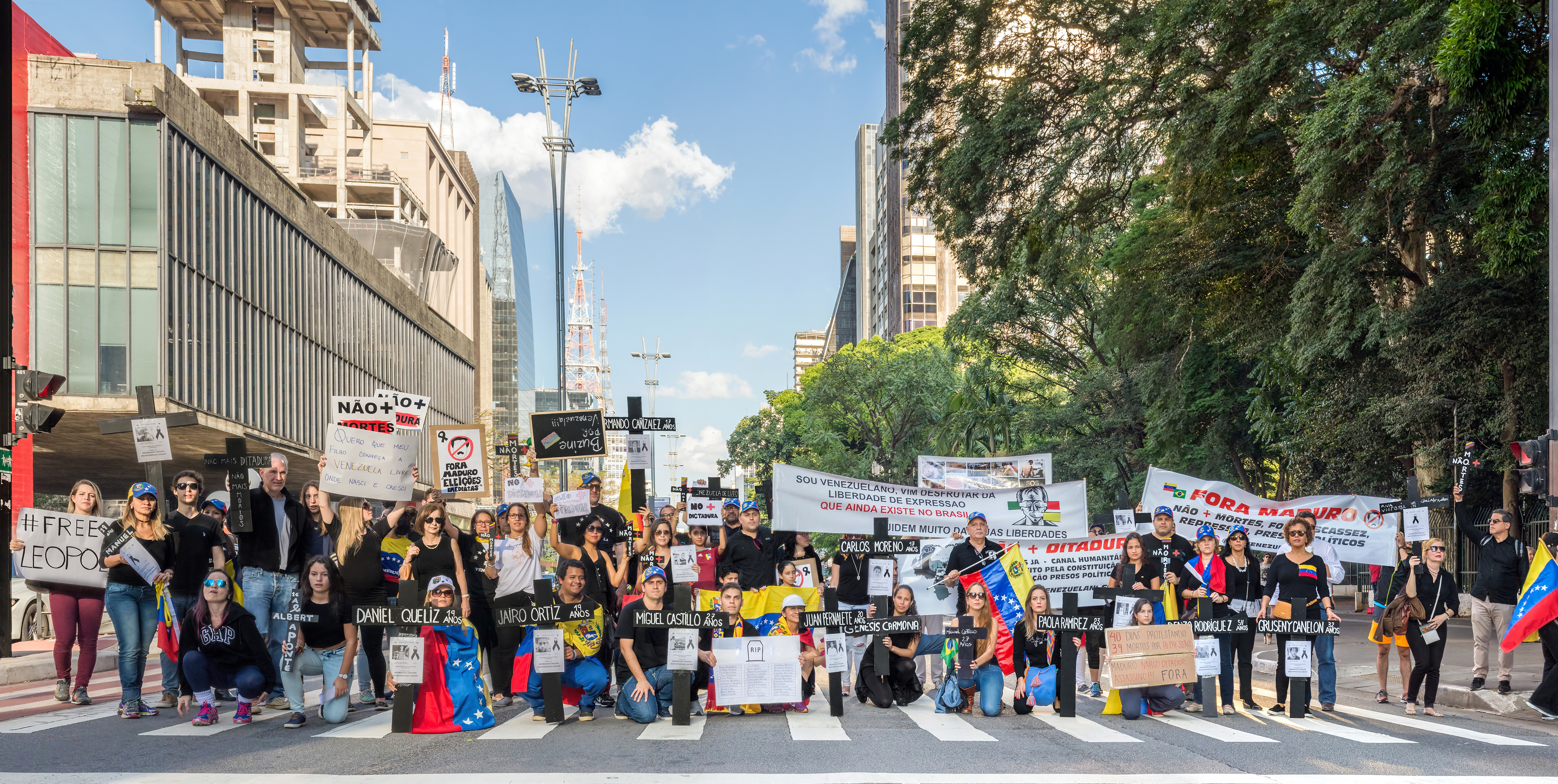 Protests opposing Venezuelan Bolivarian Revolution in Avenida Paulista, São Paulo, Brazil